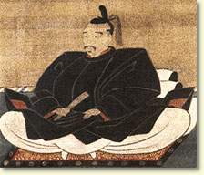 Toshiie Maeda